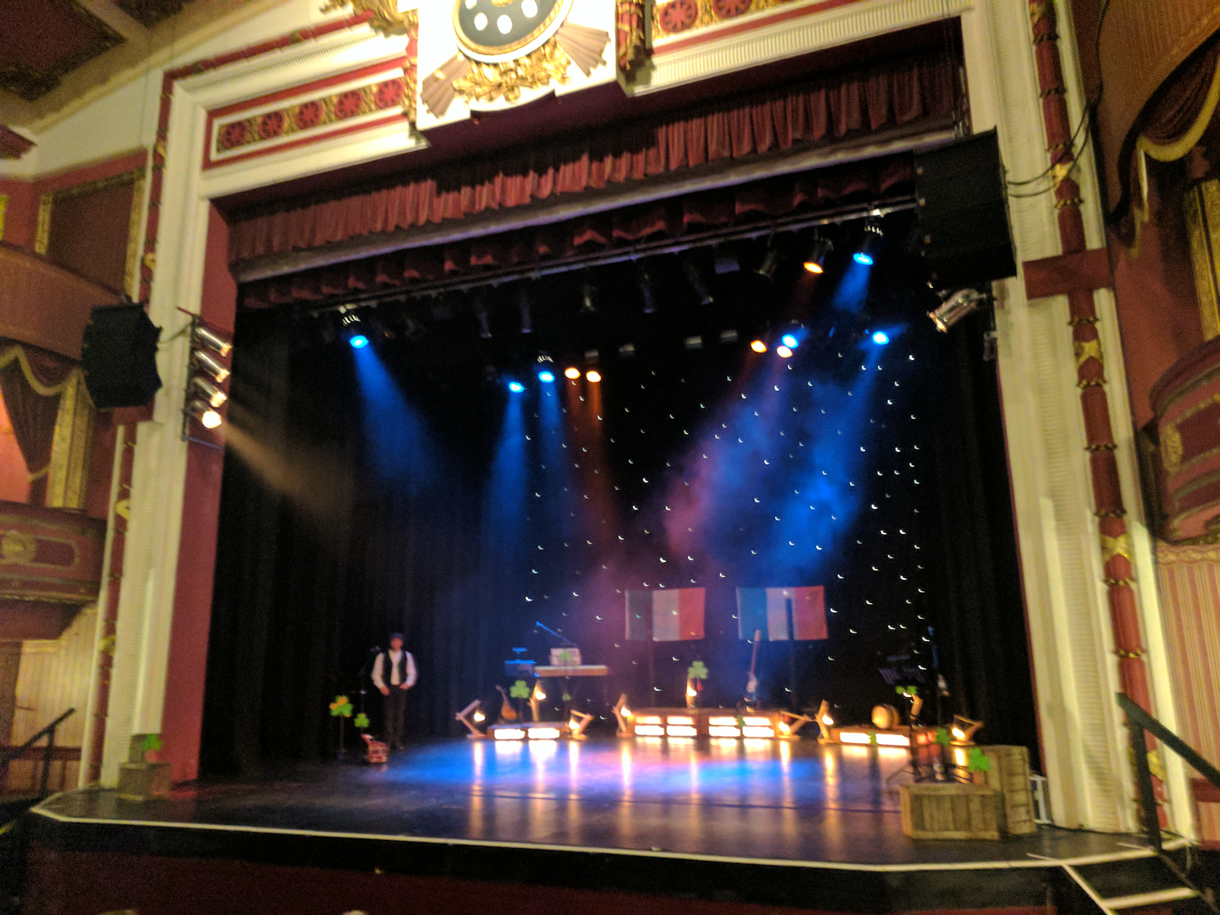 Majestic Theatre, Retford, Notts Wikidata has entry Q32828726 with data related to this item.